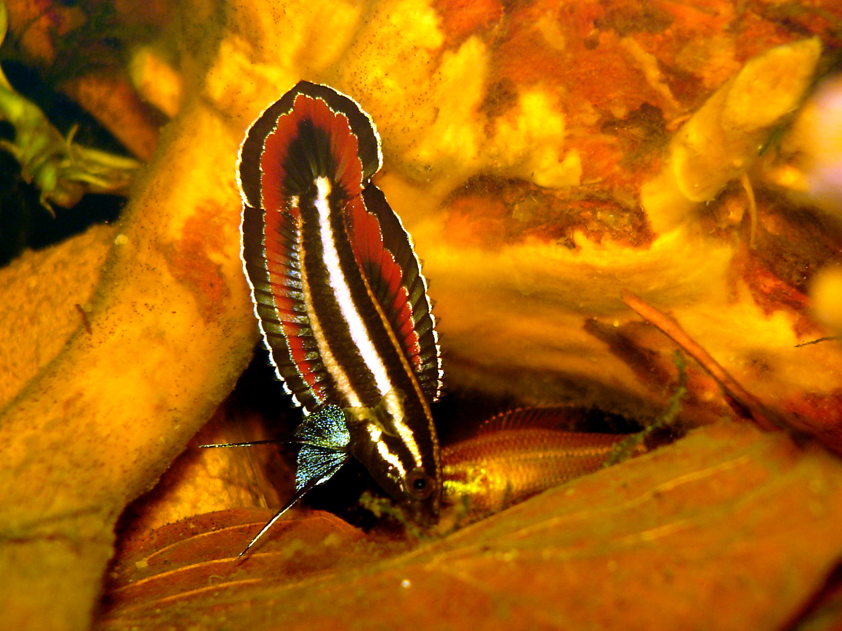 Male Parosphromenus spec. „Langgam“ in typical courtship display